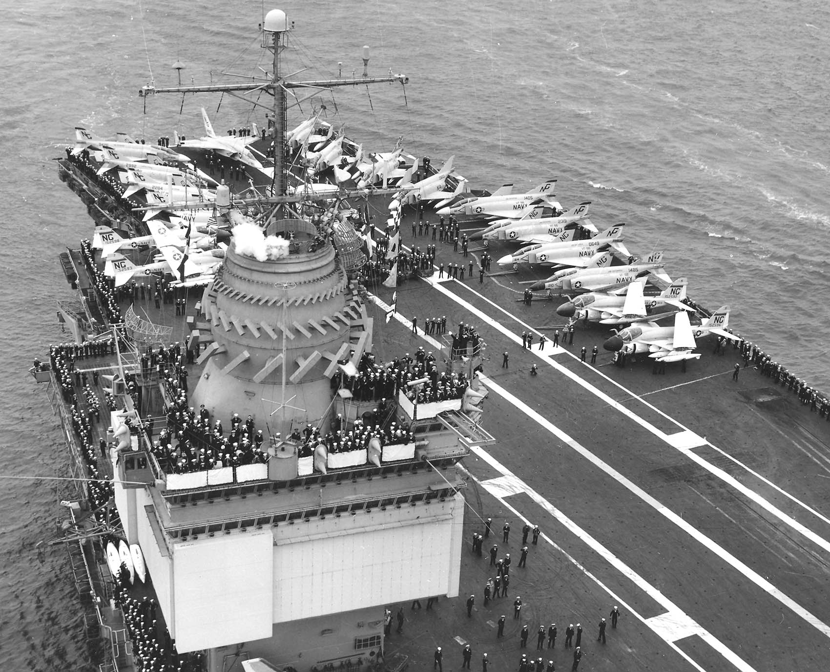 USSEnterpriseIsland67